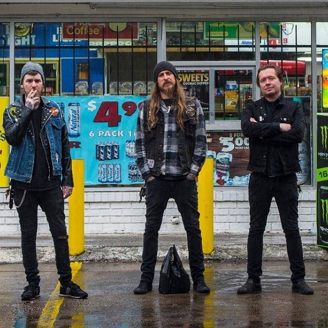 Photo by Geoff Johnson